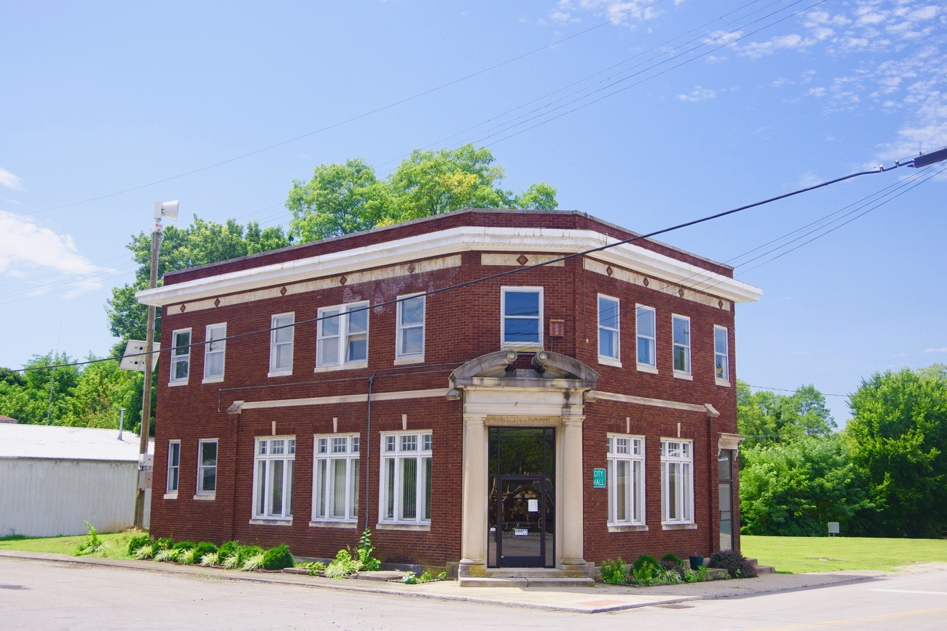 The old Union Bank building (now City Hall) in Berry, Kentucky, United States.